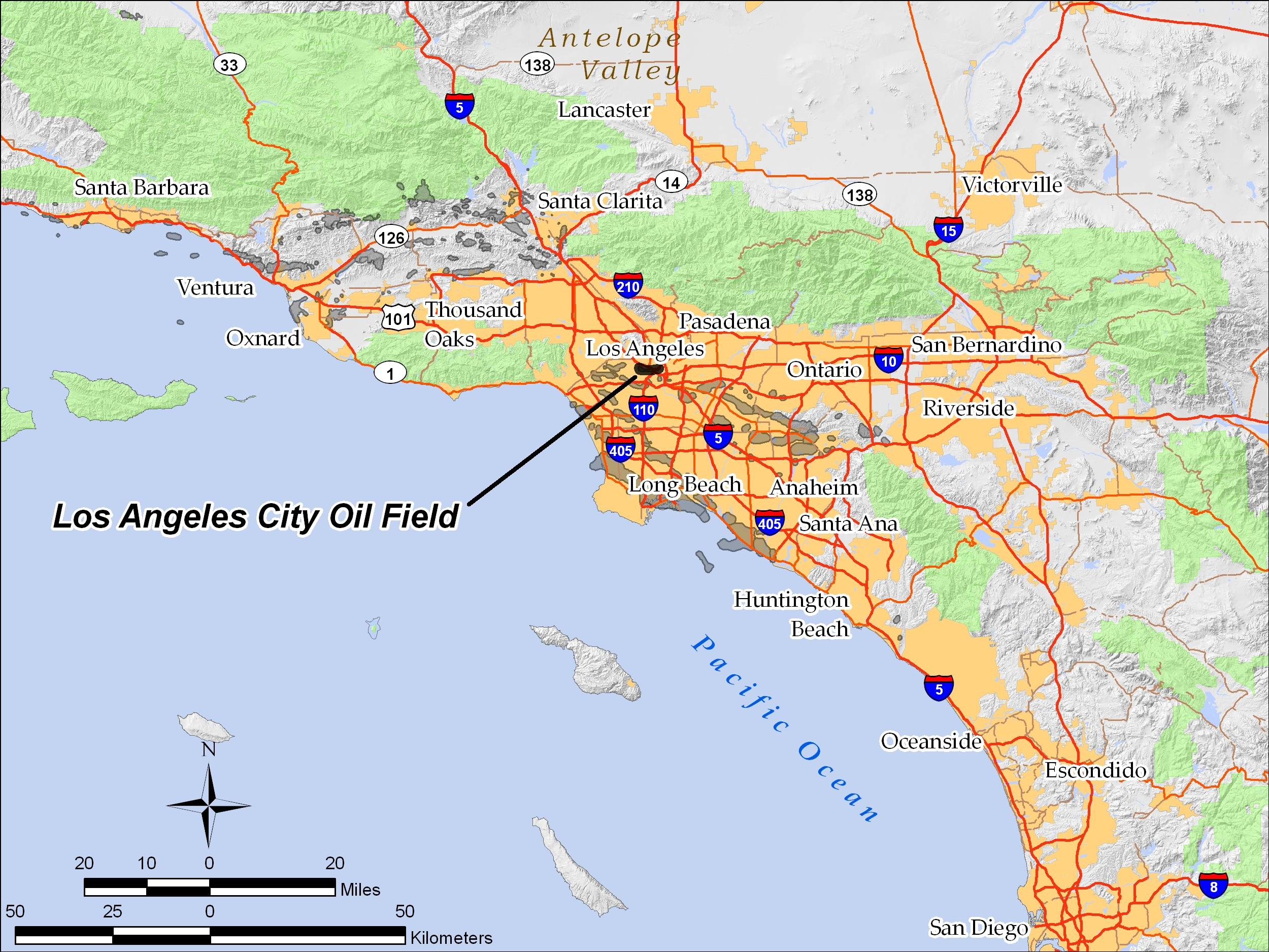 Location of Los Angeles Field. By self in ArcGIS 10.0. All data shown on the map is in the public domain. cc-by-sa 3.0.